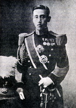 Image of Prince Imperial Ui